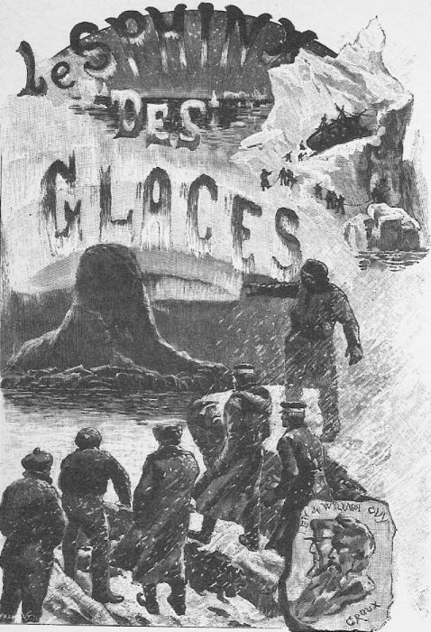 An illustration from Jules Verne's novel "The Sphinx of the Ice Fields" (or "An Antarctic Mystery", 1895) drawn by George Roux.